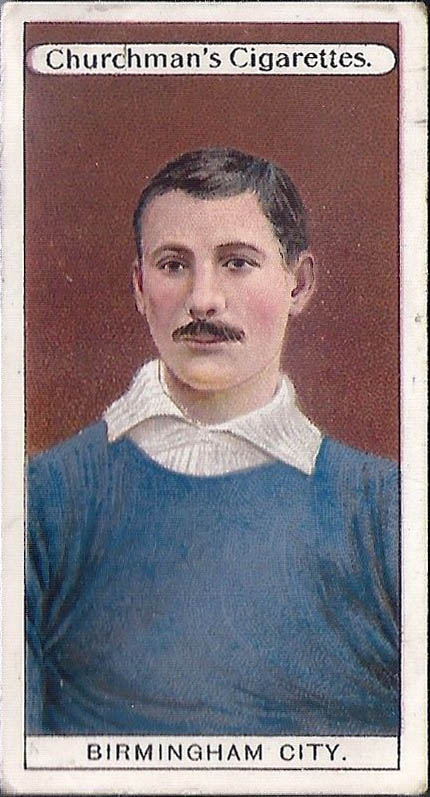 "Football Colours" card by Churchman's Cigarettes.